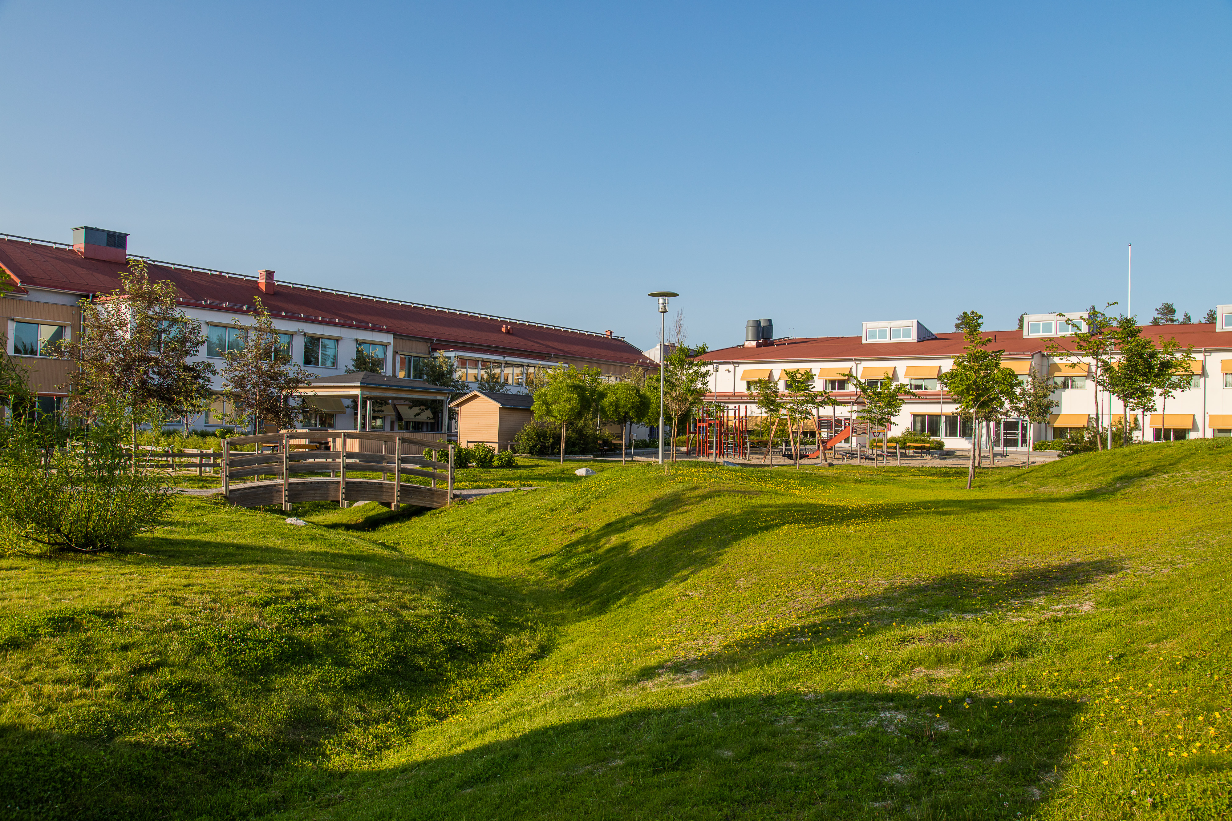 Tavleliden is a suburb i the eastern part of Umeå.